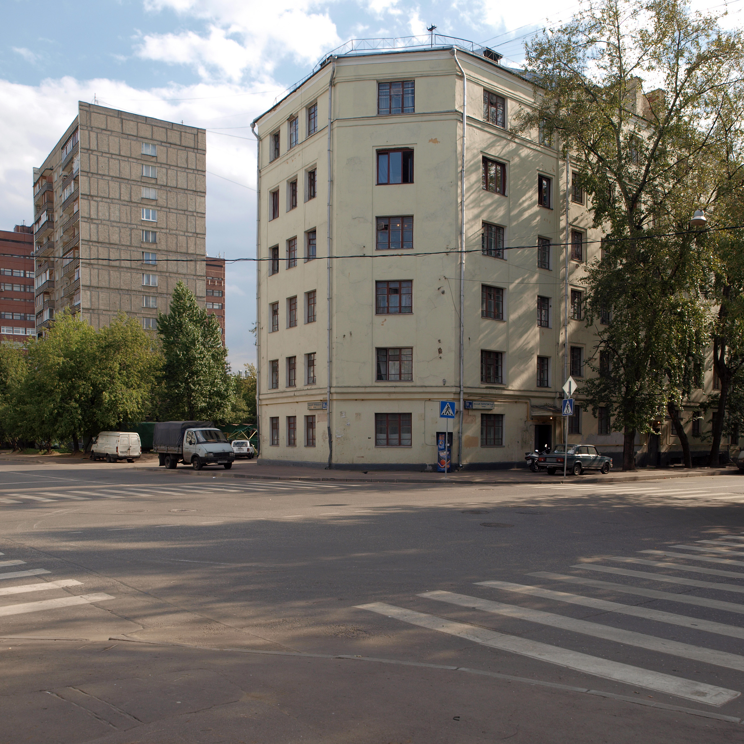 Moscow: Corner of Trubetskaya and Malaya Pirogovskaya streets - early 1930s housing